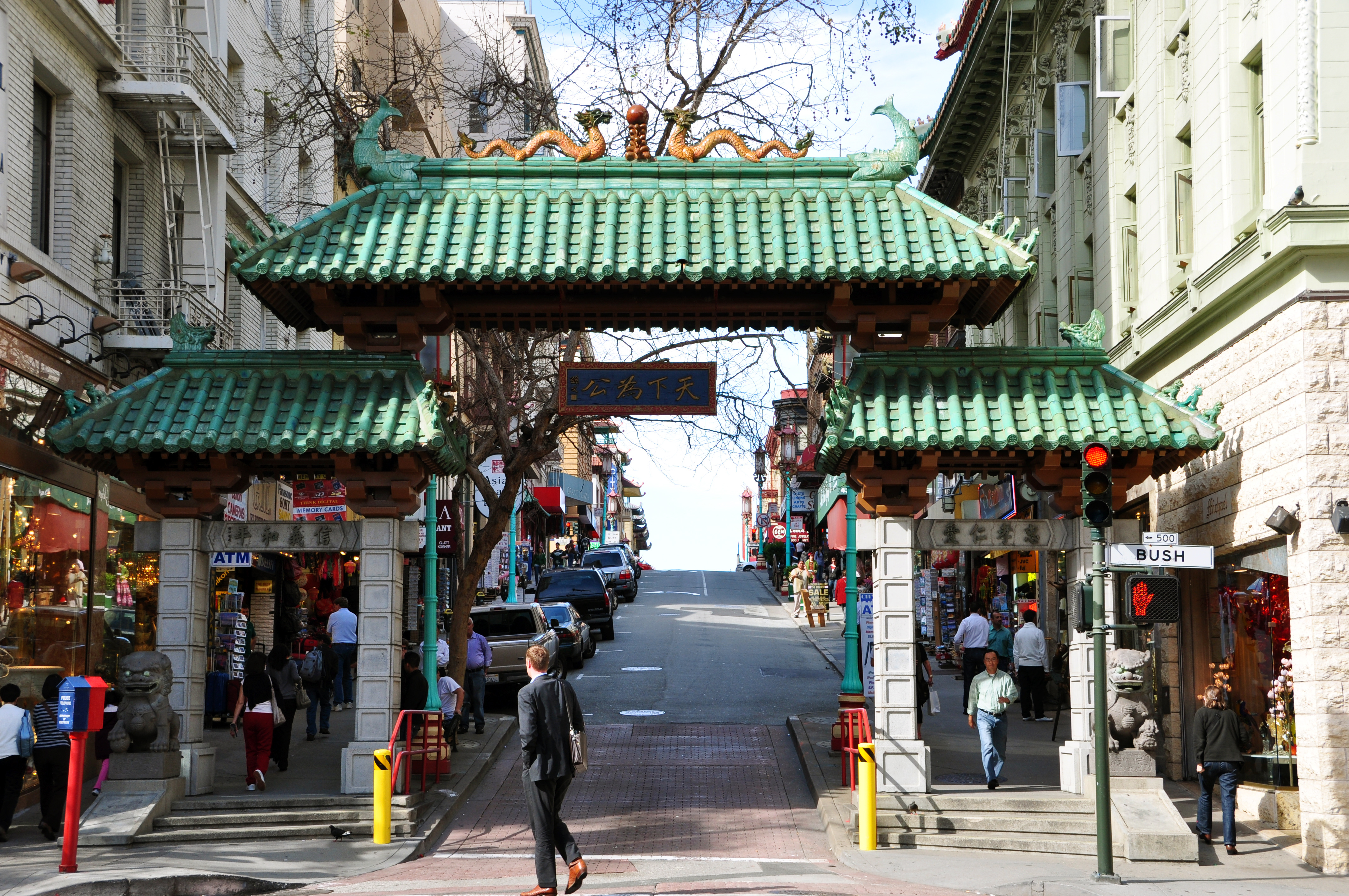 Chinatown San Francisco gateway arch 2010 California